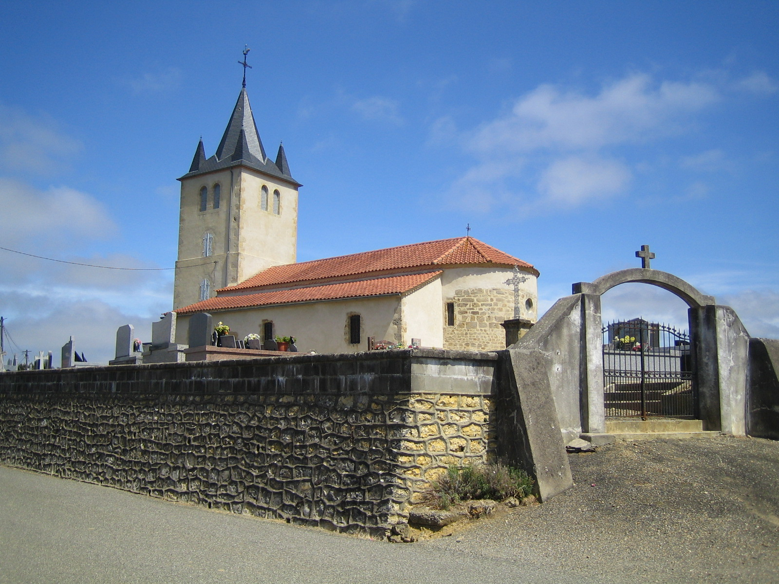 Church and cemetery of Lauret (Landes, France)